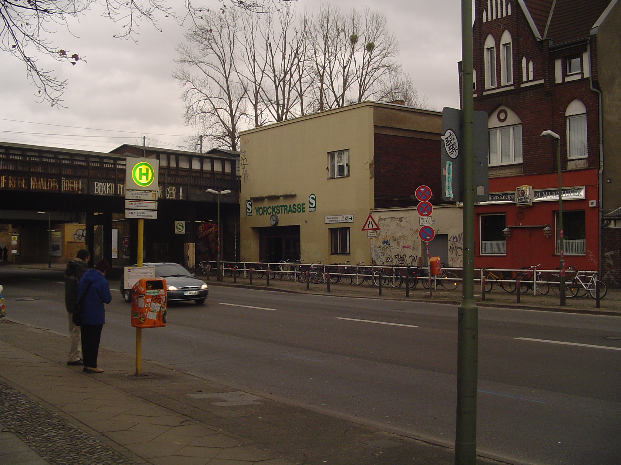 S-Bahn station Yorckstraße, entrance, view from North-west